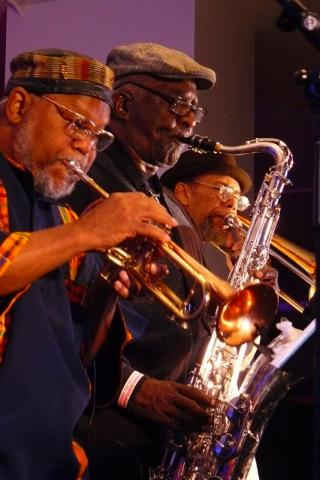 Trumpeter Marcus Belgrave, saxophonist Wendell Harrison, trombonist Phil Ranelin during a 2011 reunion of the Tribe collective.